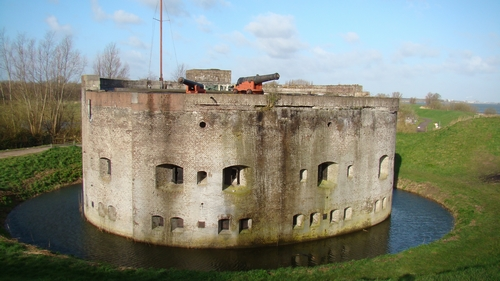 Towerfort at Muiden (netherlands)